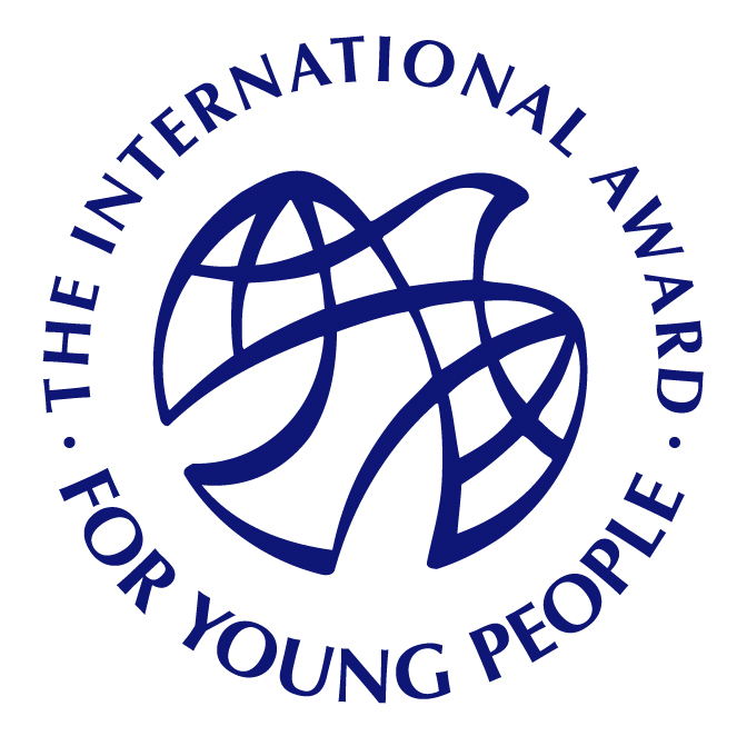 This is the official logo for The International Award for Young People